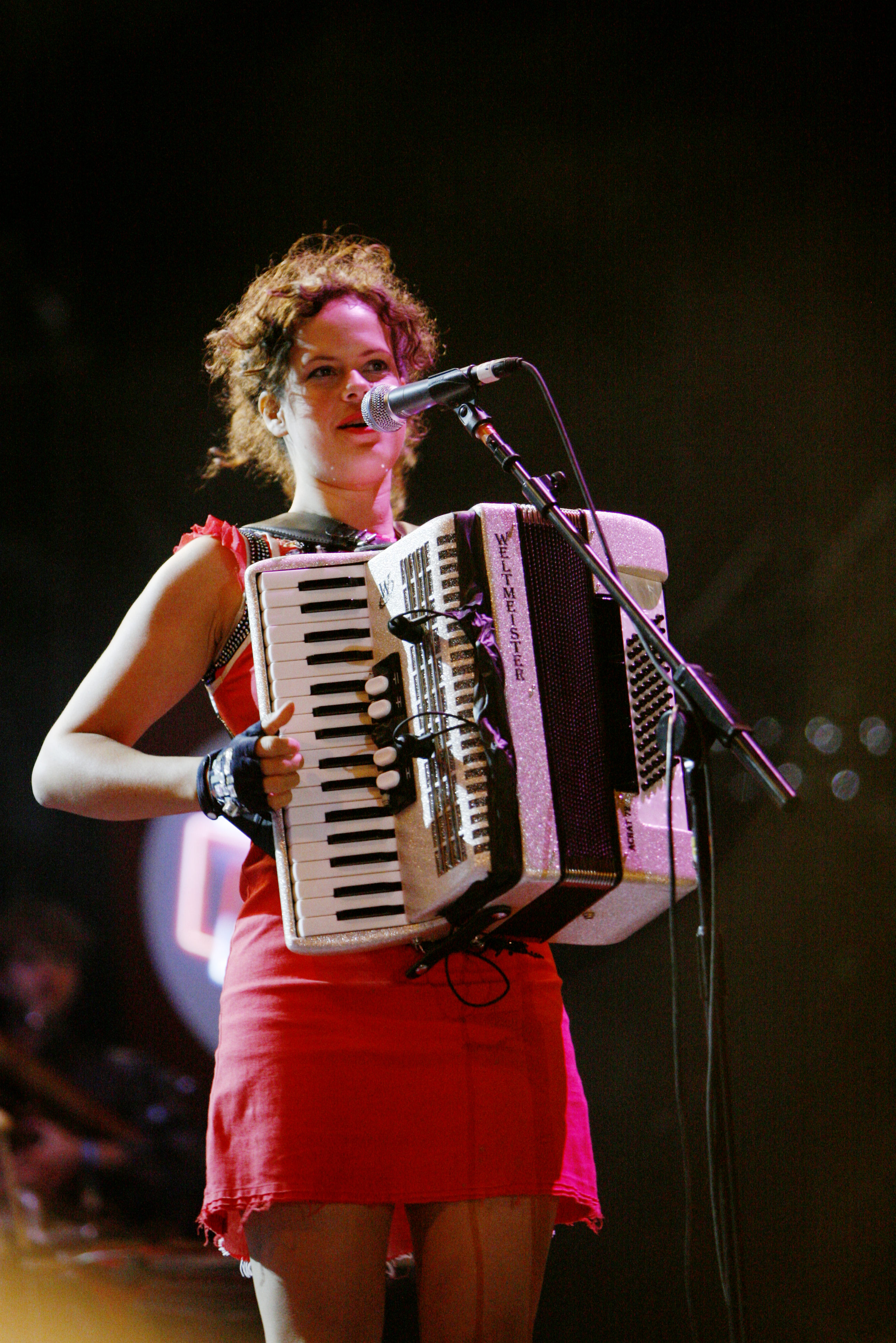 Arcade Fire at the Eurockéennes of 2007